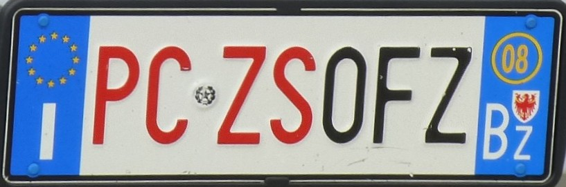 License plate of the civil protection service in South Tyrol, Italy, PC-ZS stands for civil protection in Italian (Protezione Civile) and German language (Zivilschutz), BZ = South Tyrol Province (Bolzano), 08 = first registered in 2008